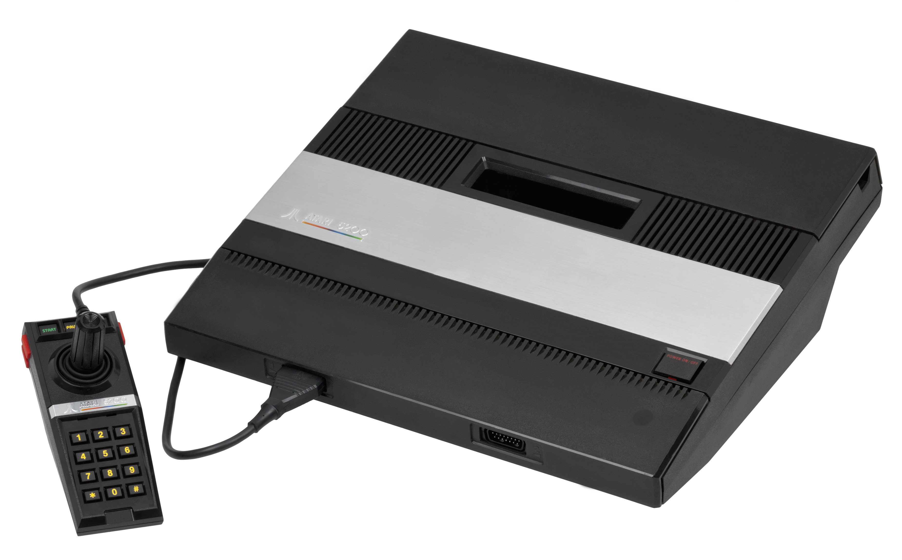 The Atari 5200 video game console shown with its controller, released in 1982.